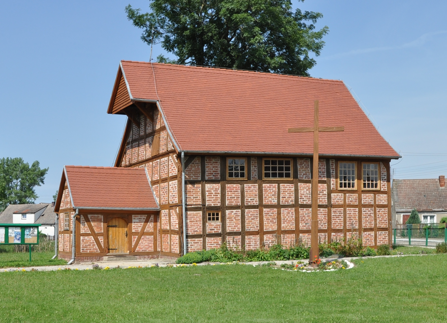 St. Mary of the Annunciation Roman Catholic Church in Ciećmierz